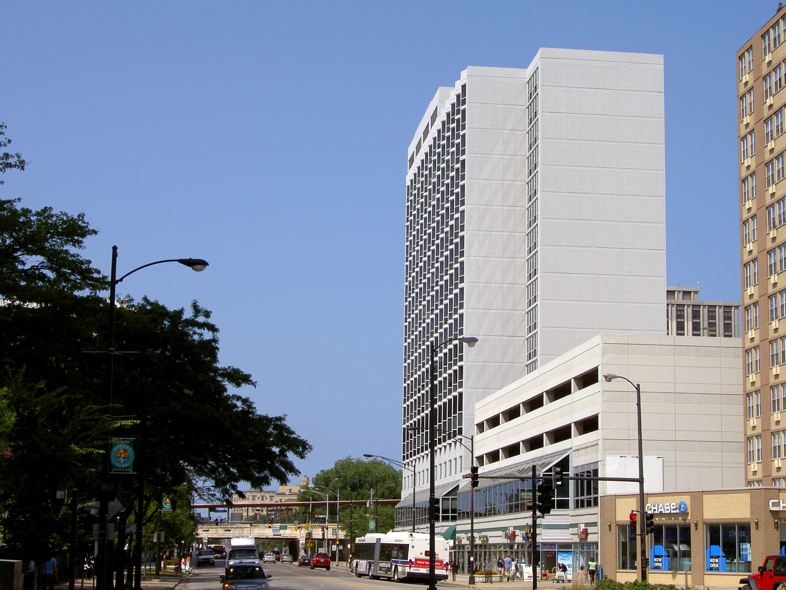 Roger's Park, Chicago.